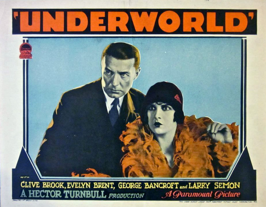 Lobby card for the American crime film Underworld (1927).